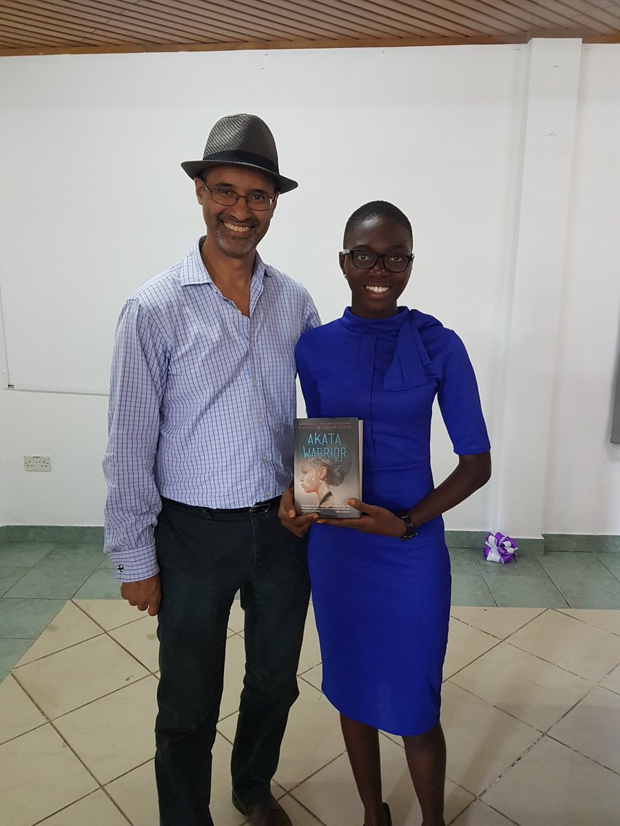 This is an image of Dr. Tom Ilube presenting a novel to Miss Onah Onyedikachi Nnenna at African Science Academy. This was during the welcome event for the third cohorts of the college (2018/19 academic session).